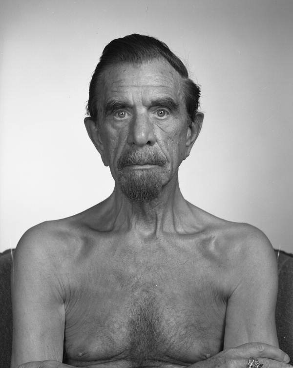 Son of chiropractic founder Daniel David Palmer. Accompanying note: "Photos of head + shoulders for an Atlanta sculptor to use in making bronze bust of him".